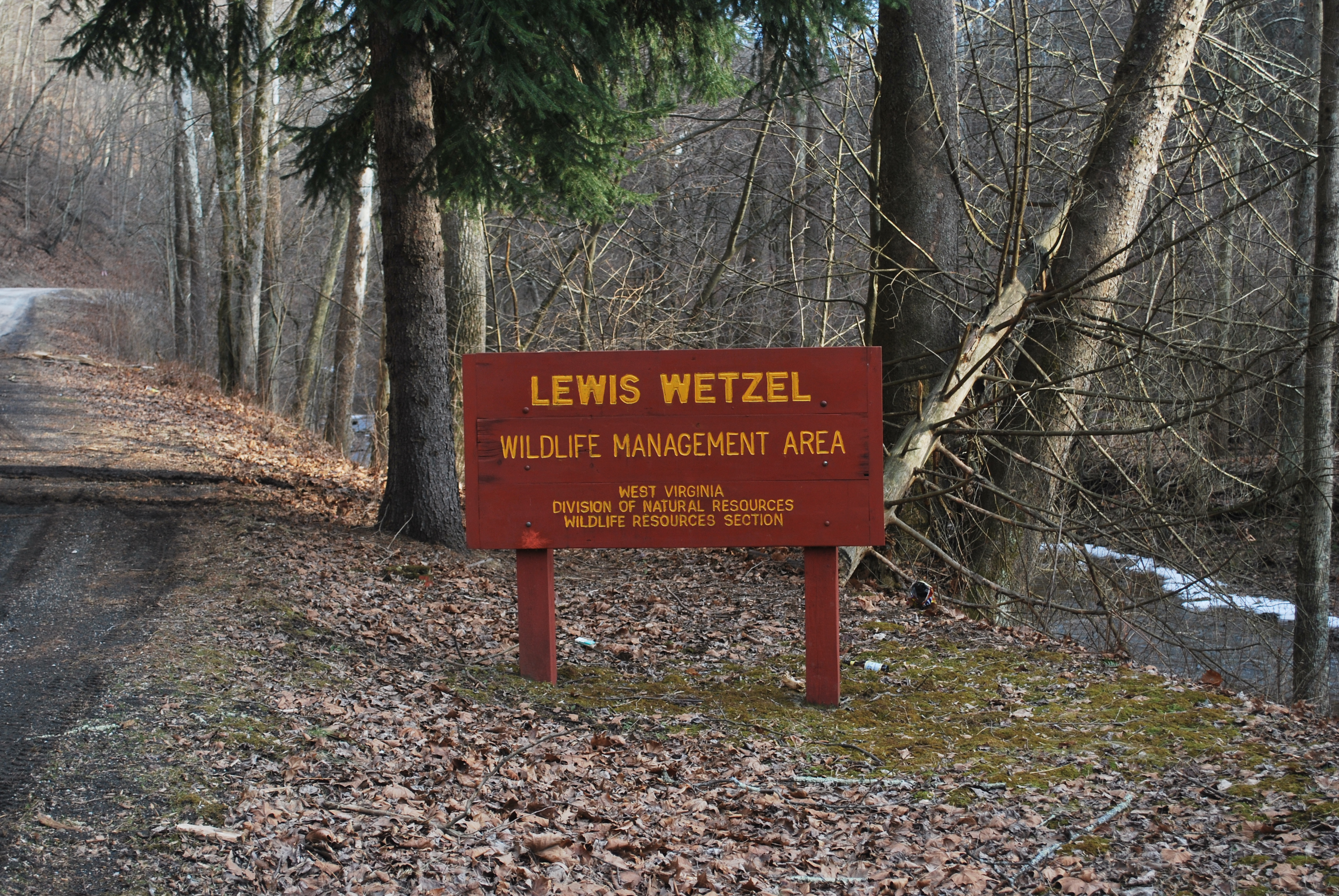 Entrance sign for Lewis Wetzel Wildlife Management Area along County Route 82.